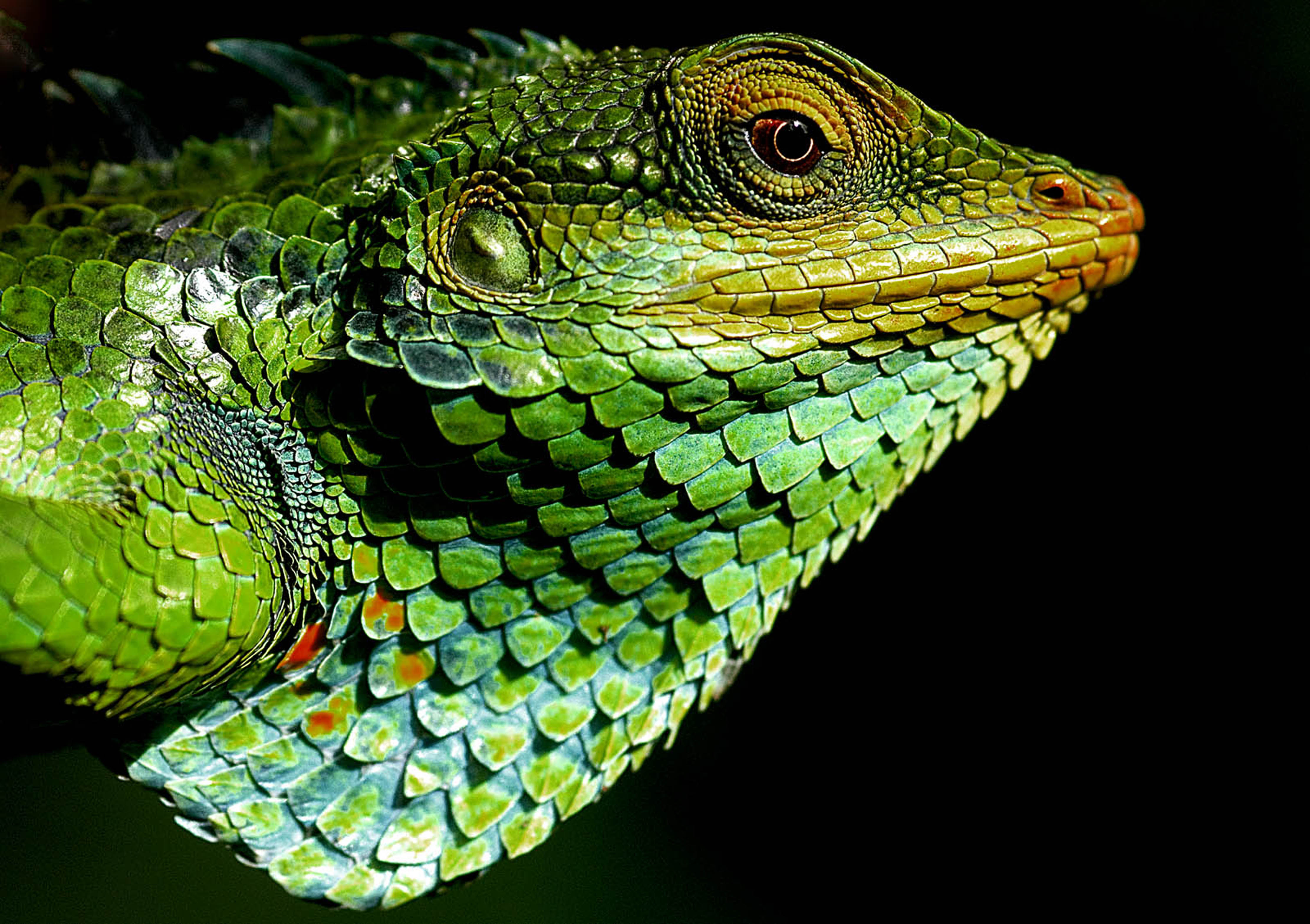 This Large Scaled Forest Lizard [Calotes grandisquamis] photographed from Valparai, Near Pollachi, Tamilnadu, India.